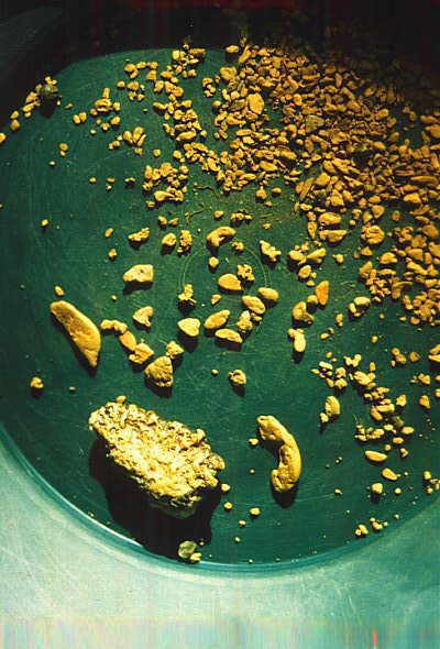 Some gold nuggets from Alaska.